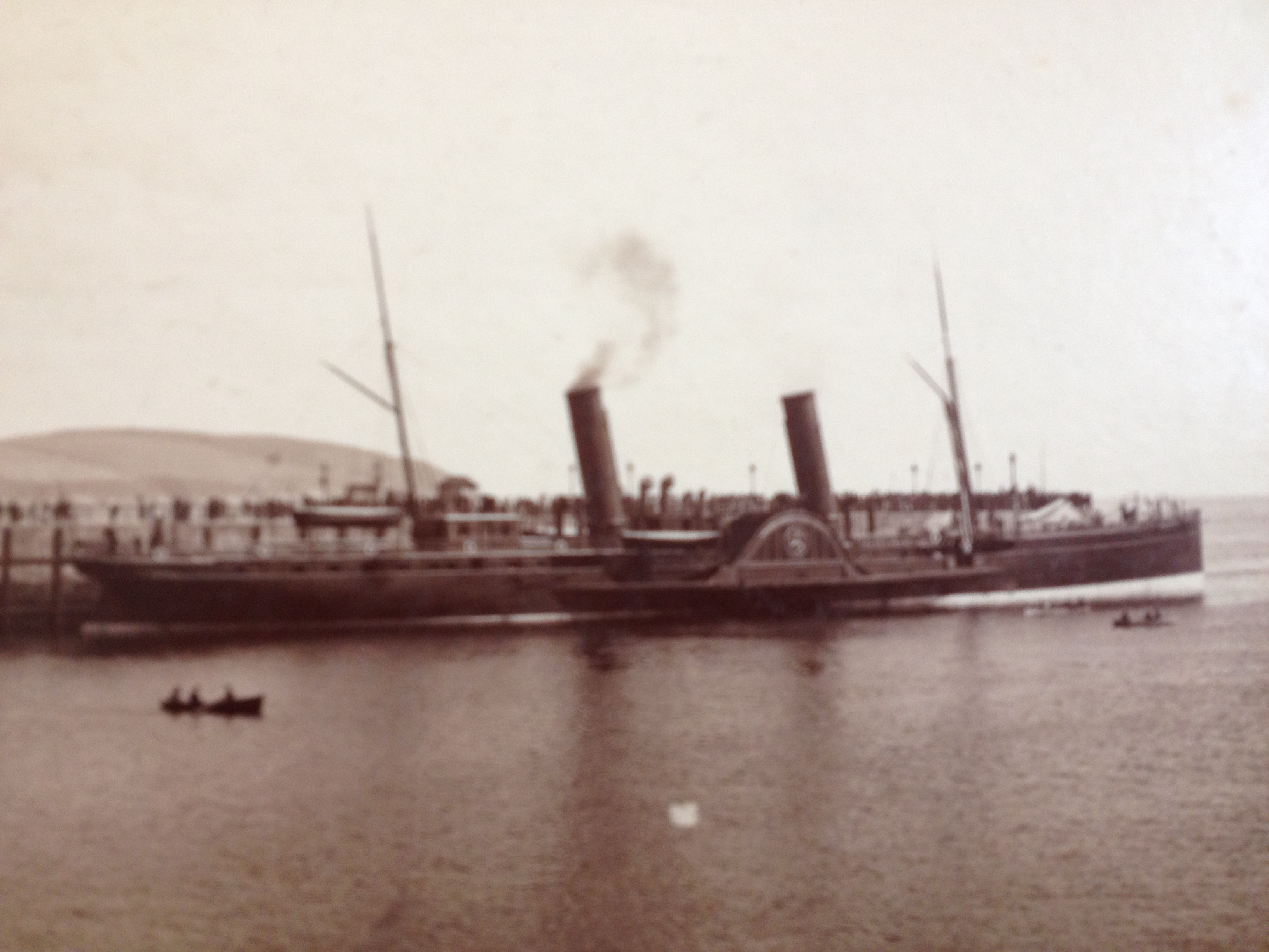 Isle of Man Steam Packet Company paddle steamer Mona's Isle, pictured at the Victoria Pier, Douglas.